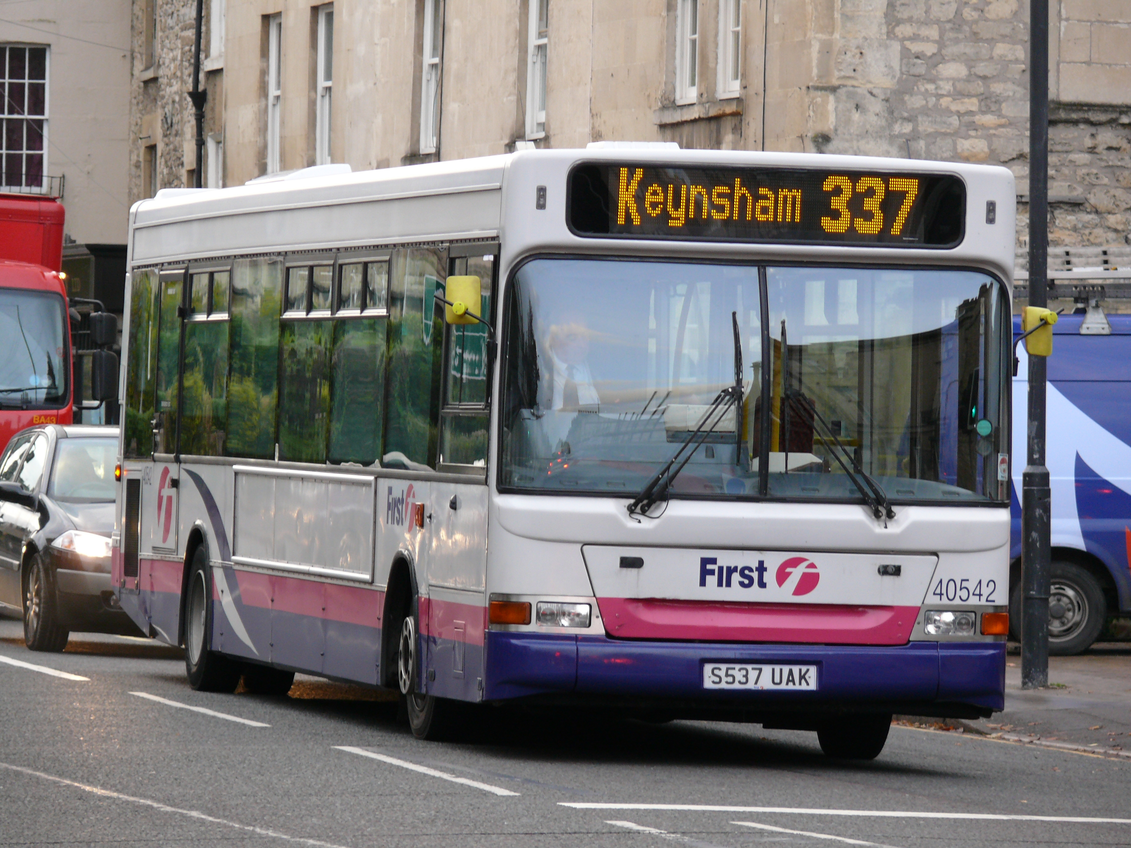 First Bristol Dennis Dart SPD 40542 to Keynsham in Bath.